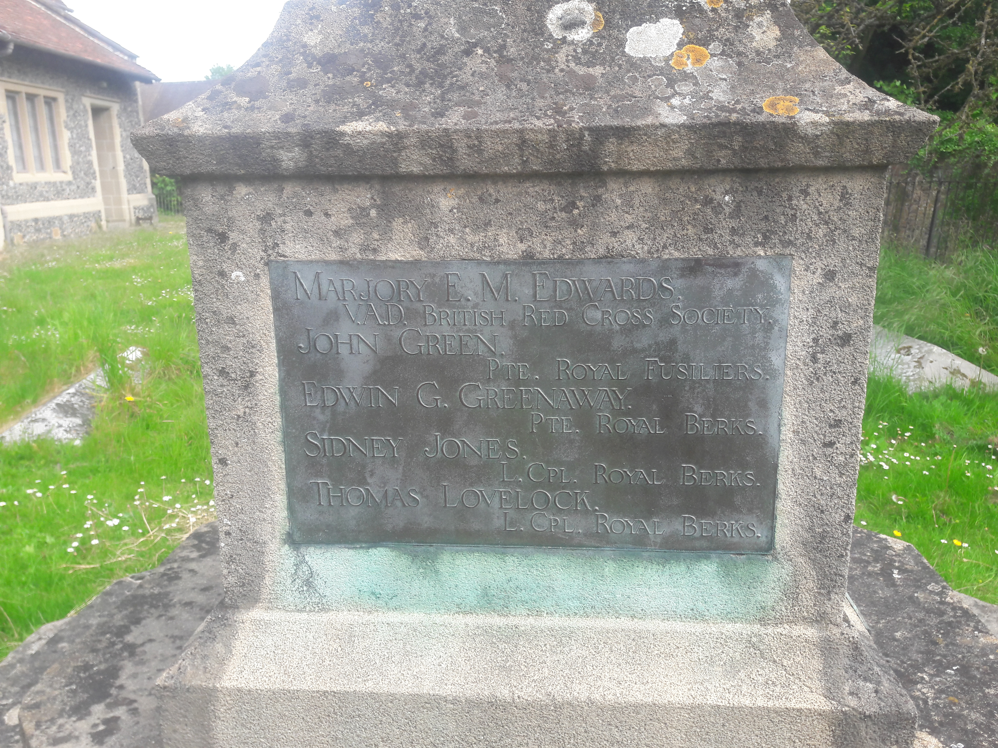 One side of the Streatley village First World War memorial at St Mary's Church, Streatley-on-Thames, England dedicated to local residents who gave their lives "for King and Country" during the Great War. It includes a rare female name, Marjory E. M. Edwards a V.A.D. nurse who served in Britain and France and died in 1918. The names listed on this side of the war memorial are: Marjory E. M. Edwards, V.A.D. British Red Cross Society; John Green, Private, Royal Fusiliers; Edwin G. Greenaway, Private, Royal Berkshire; Sidney Jone, Lance Corporal, Royal Berkshire Regiment; and Thomas Lovelock, Lance Corporal, Royal Berkshire Regiment